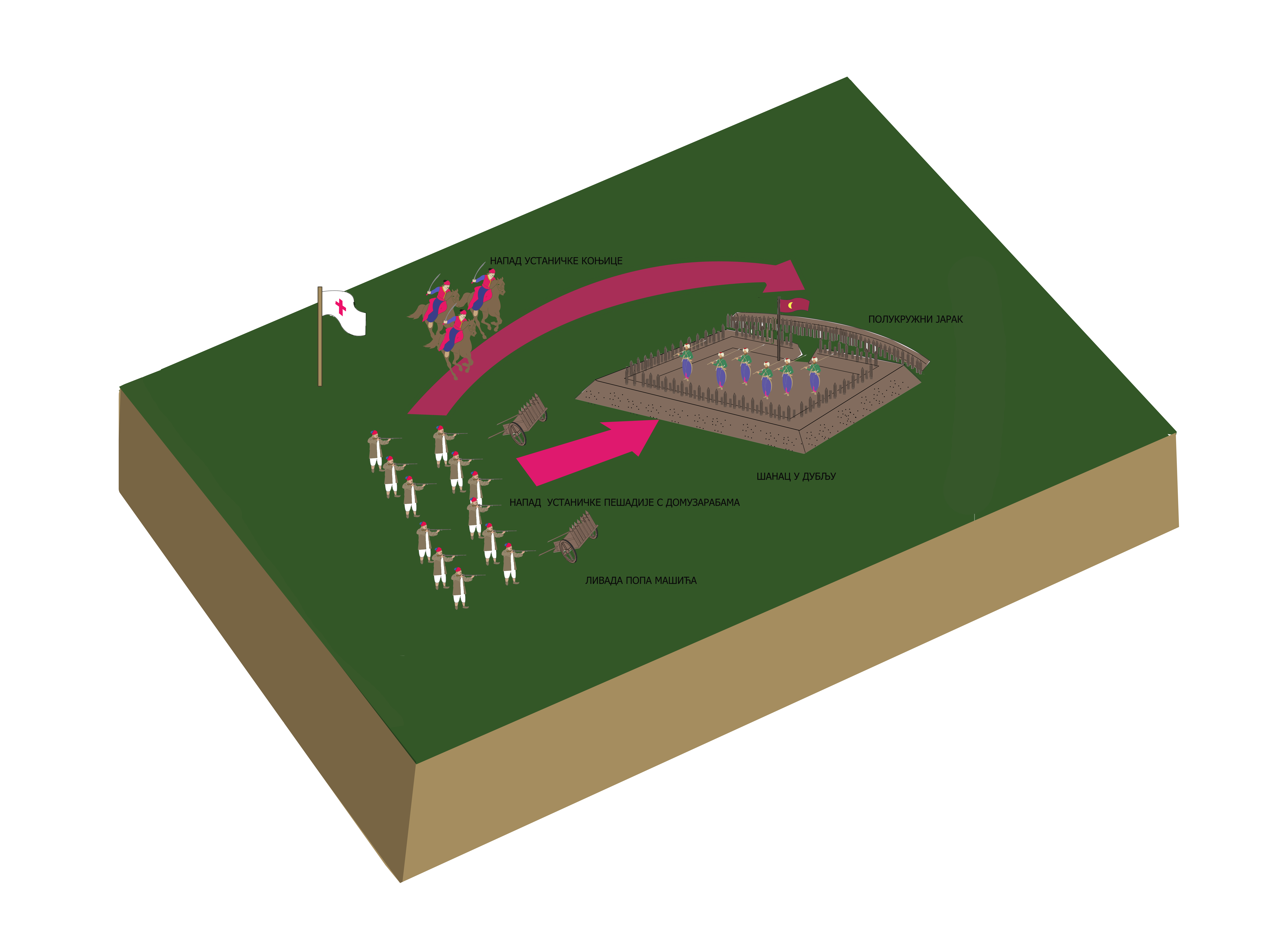 The 3D map of last major battle of Second Serbian uprising battle of Dublje 26th of July 1815